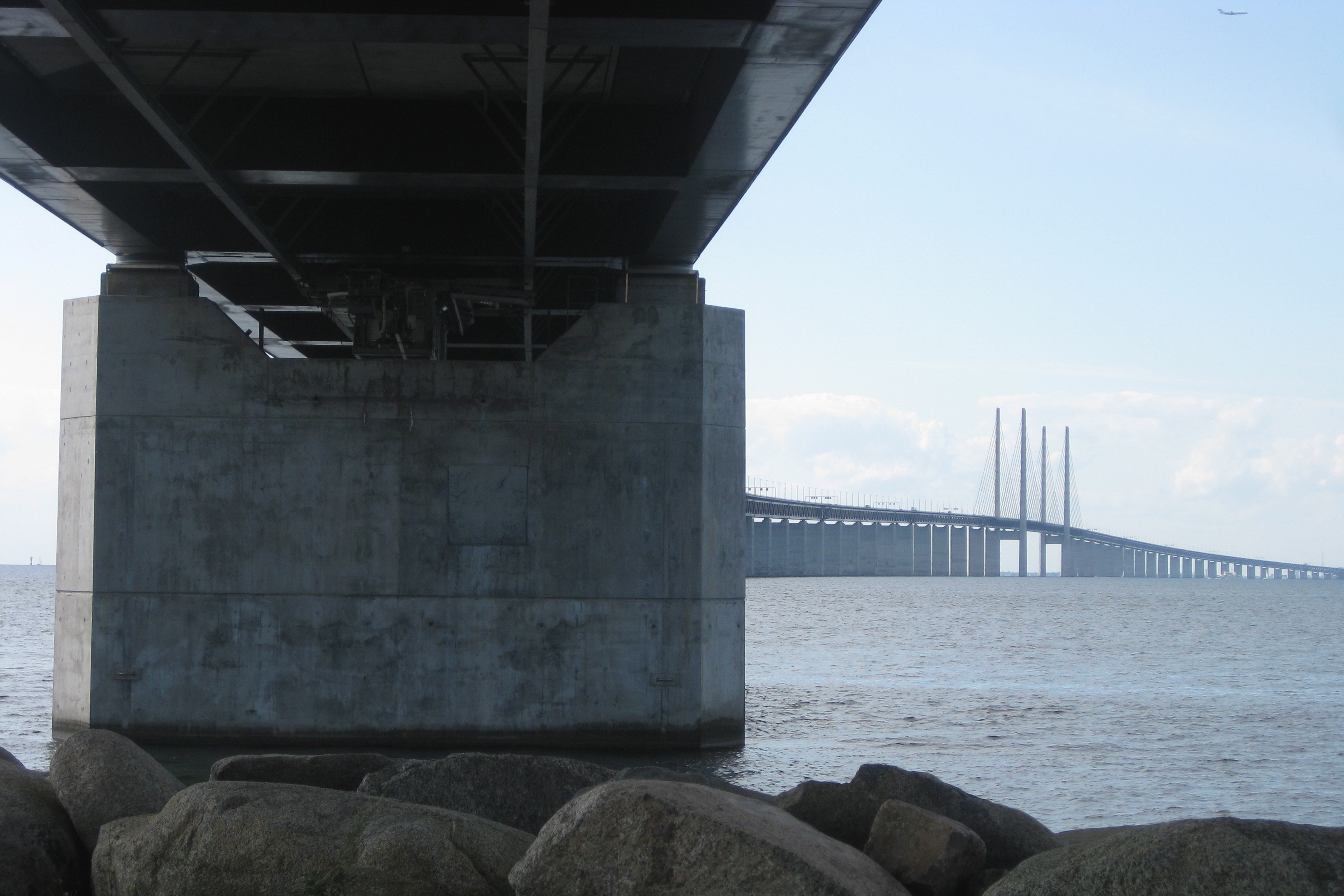 The Öresund Bridge from underneath the abutment on the Swedish side.